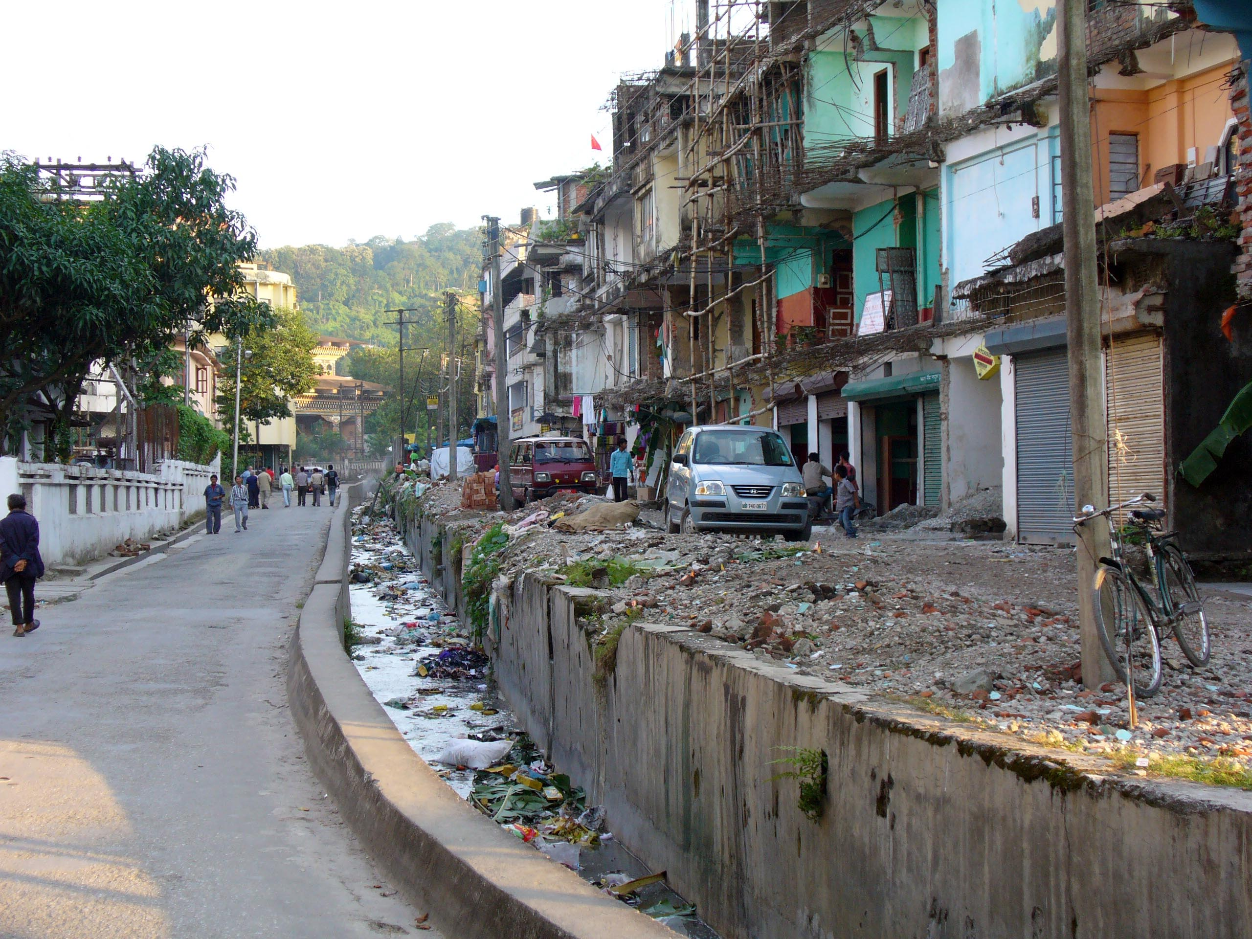 Border between Bhutan (left) and India (right) in the town of Phuntsholing on the background is the border gate